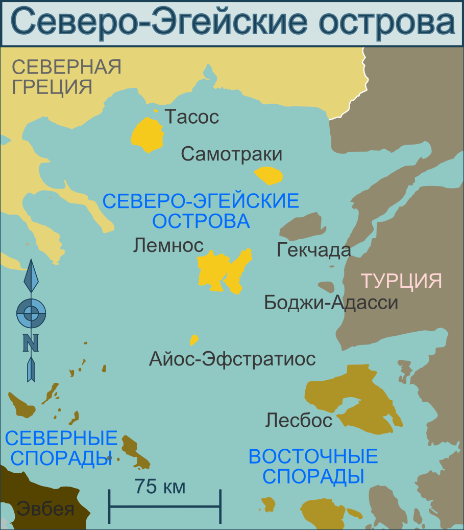 Greek North Aegian Islands map. Russian version, North Aegean Islands Map of: Greece¤.